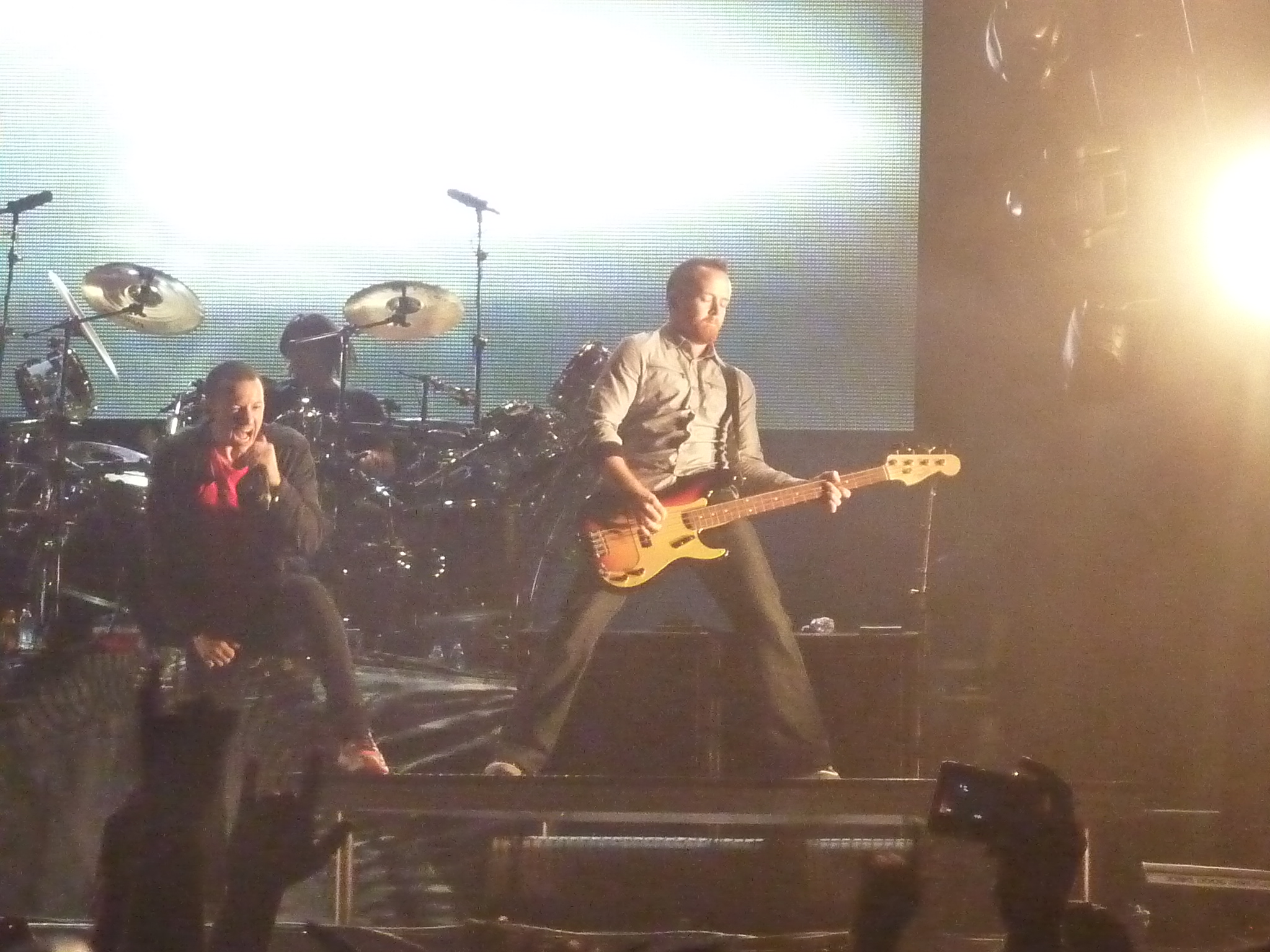 Linkin Park performing at the Maquinaria Festival 2010